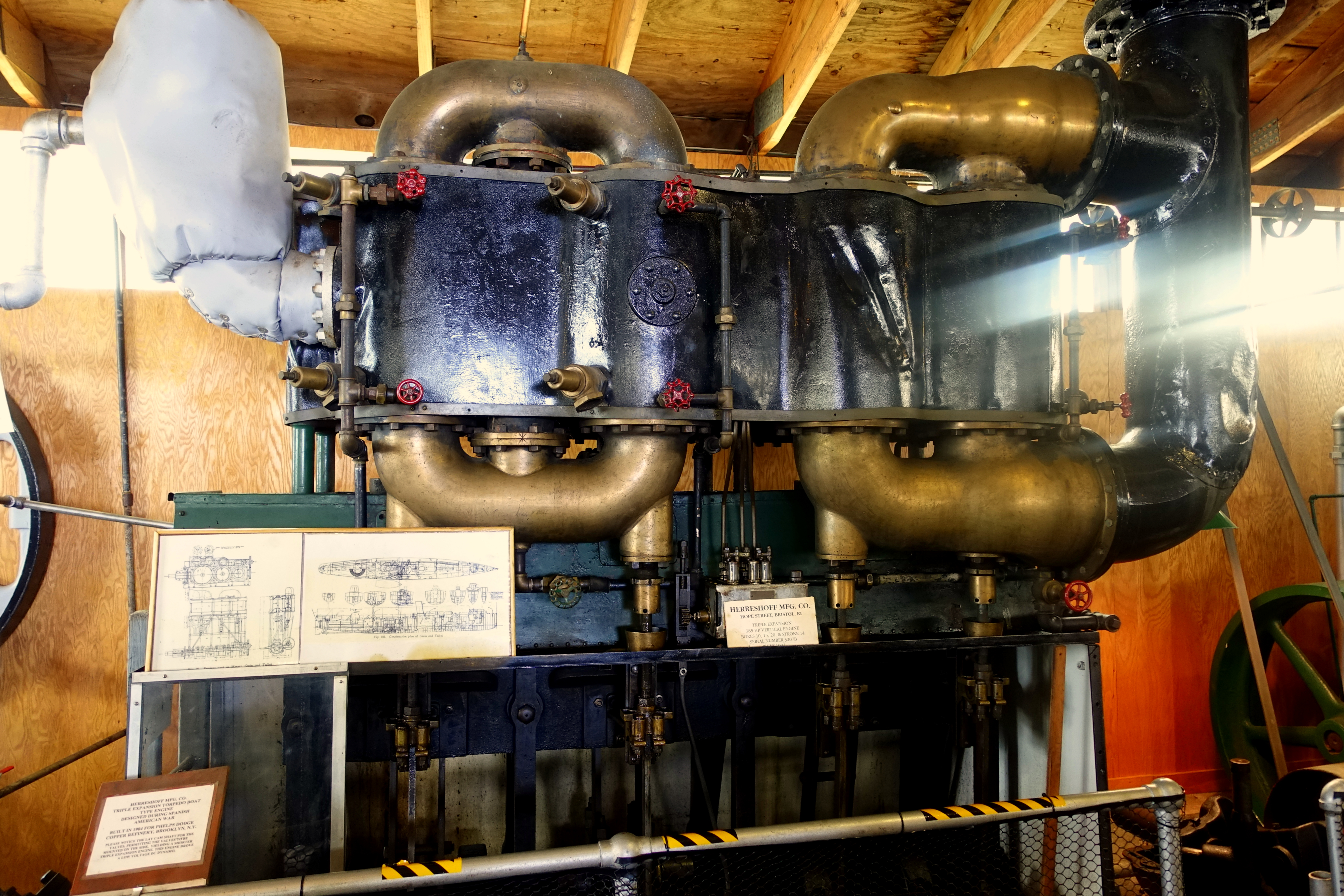 Exhibit in the stationary steam engine collection - New England Wireless & Steam Museum - East Greenwich, Rhode Island, USA.